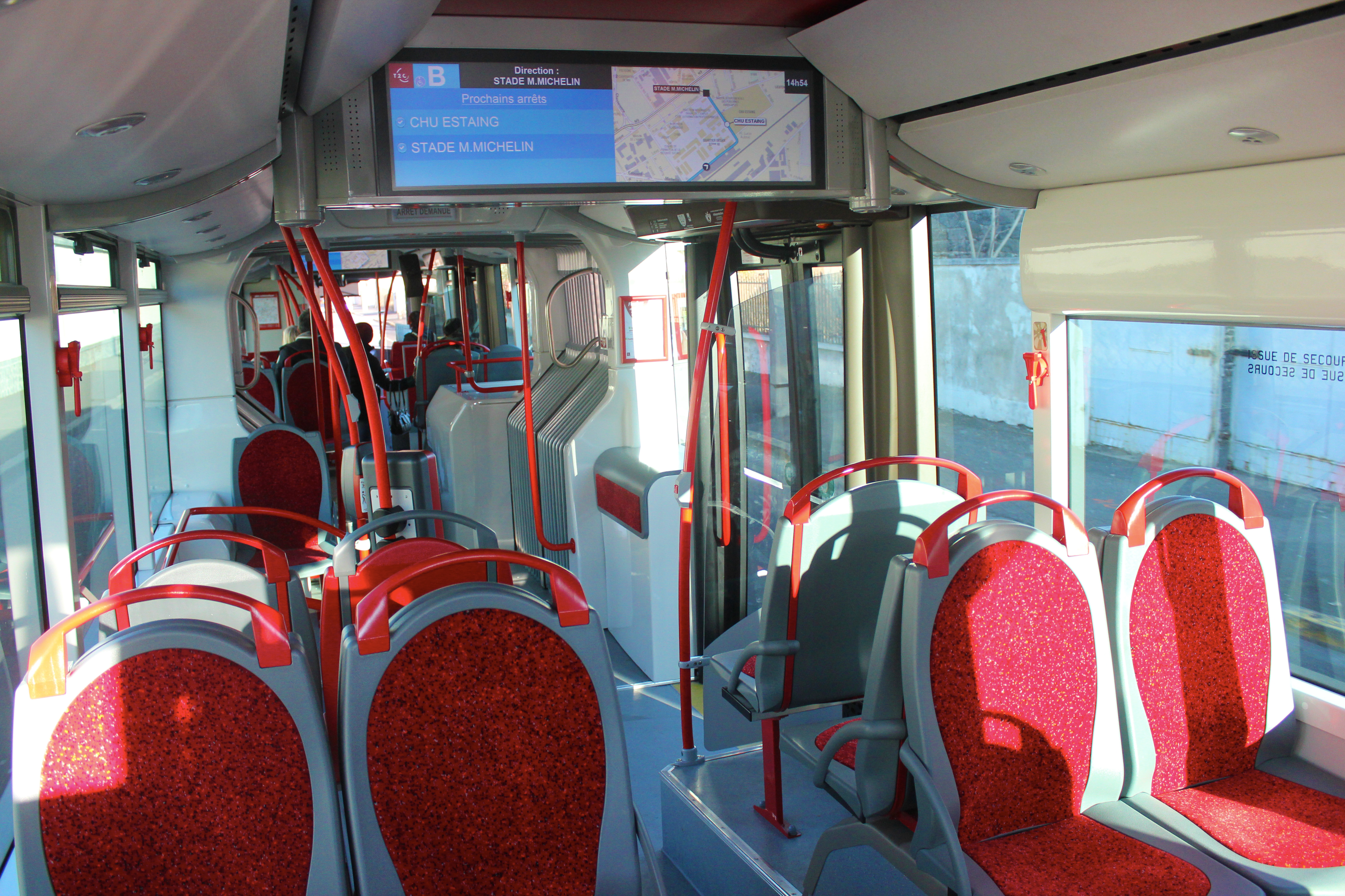 Intérieur Créalis Néo